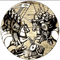 Battle of Ascalon (sketch of stained glass from Saint-Denis)